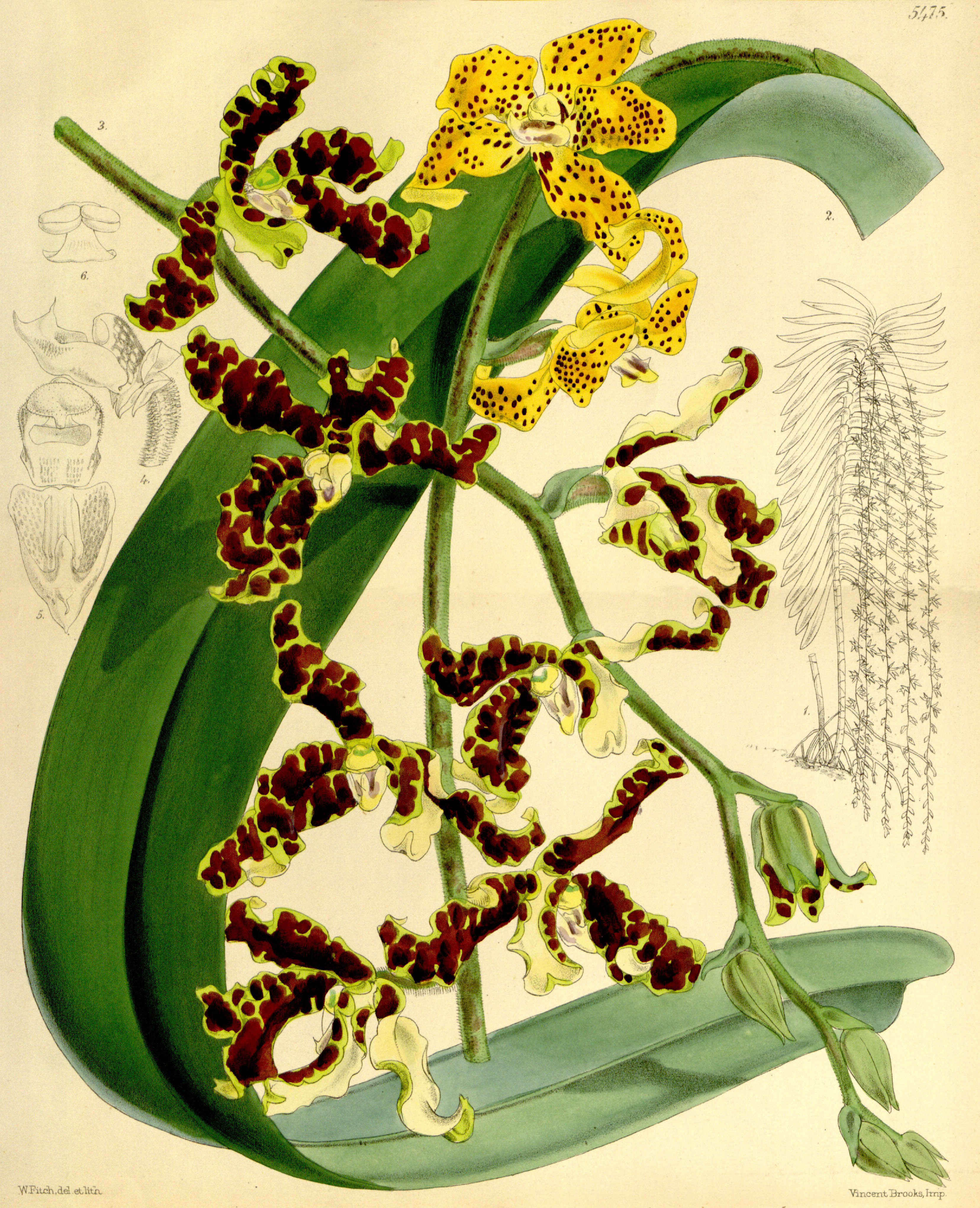 Illustration of Dimorphorchis lowii ( or Renanthera lowii)